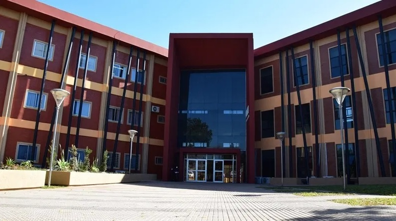 National University of Itapúa, in Encarnación